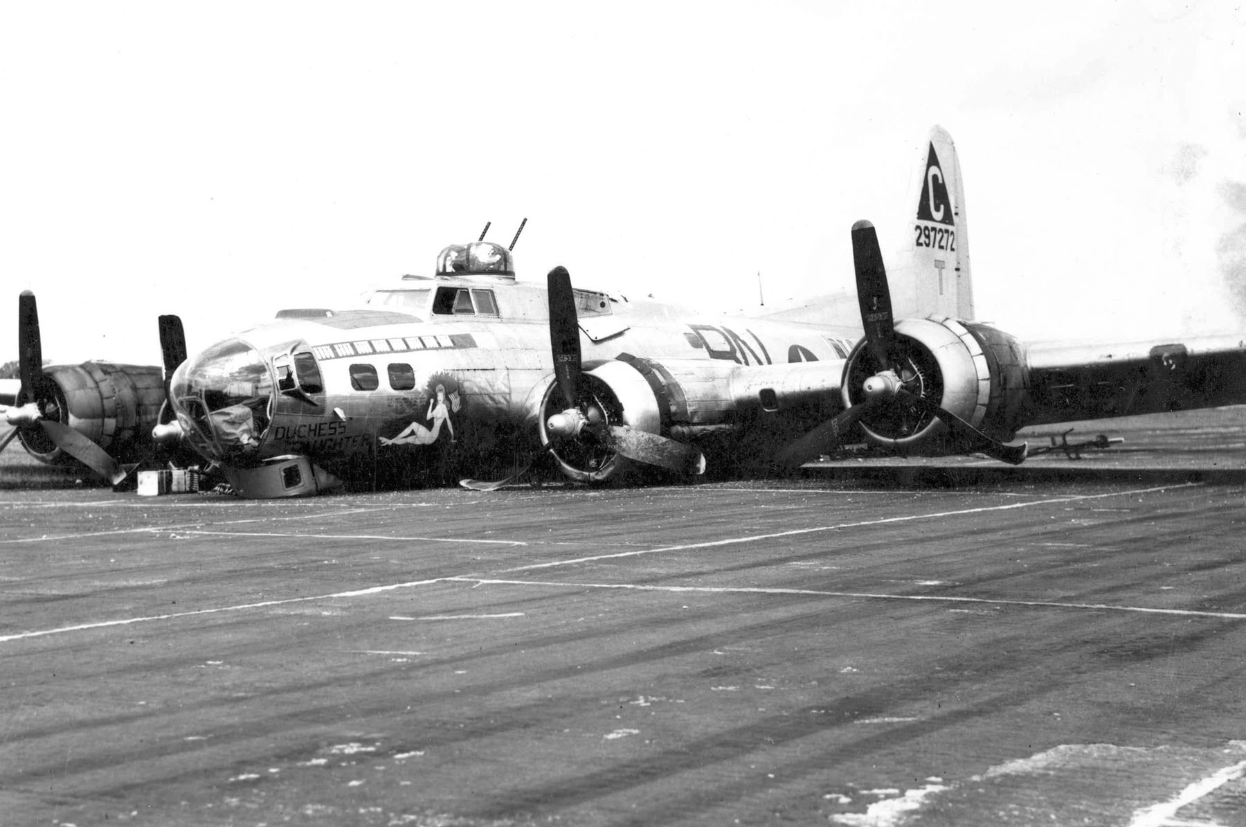 Emergency wheels-up landing of Boeing B-17G-45-BO (S/N 42-97272) (BN-T) "Duchess Daughter" of the 303rd Bomb Group, 359th Bomb Squadron. Lt. Mathis was lead bombardier for a mission on March 18, 1943, when the "Duchess" was hit by flak. Lt. Mathis, although seriously wounded, completed the bomb run. He died soon after.